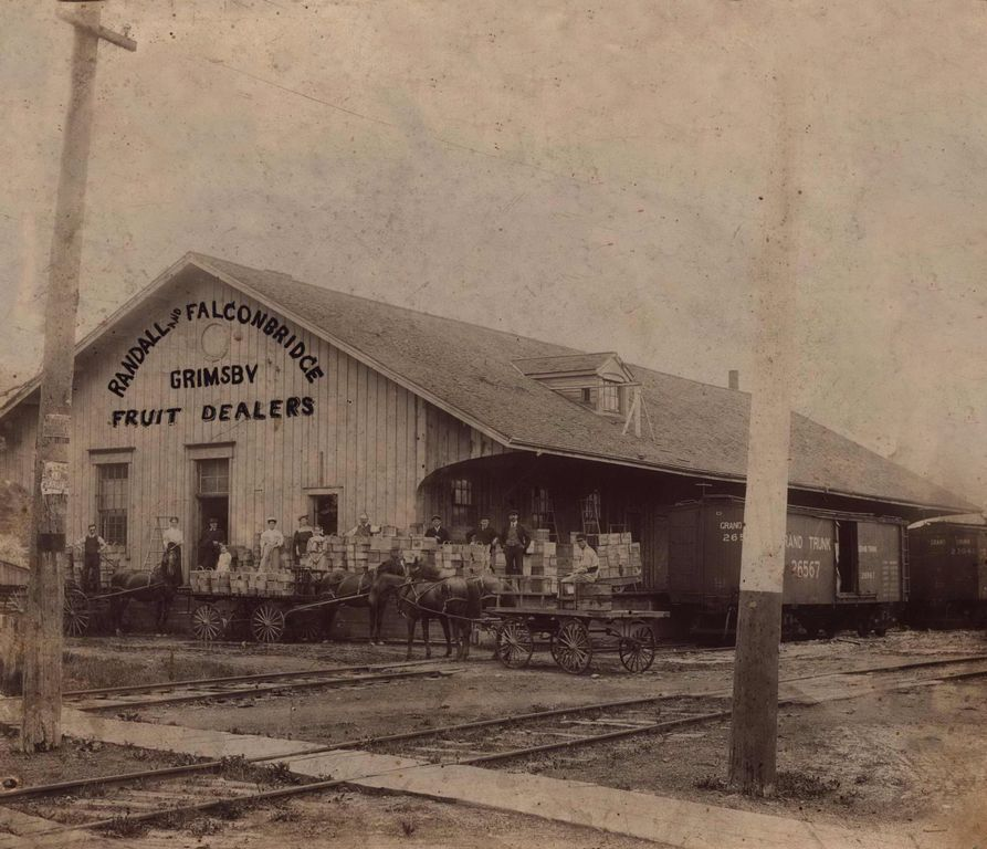 Randall and Falconbridge Fruit Dealers used the original train station as a fruit shipping operation.